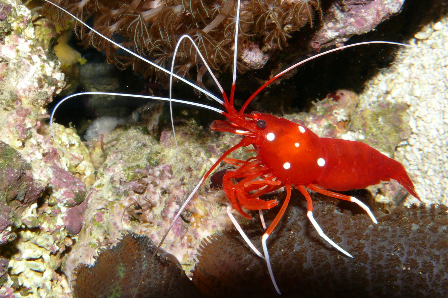 Cleaner shrimp